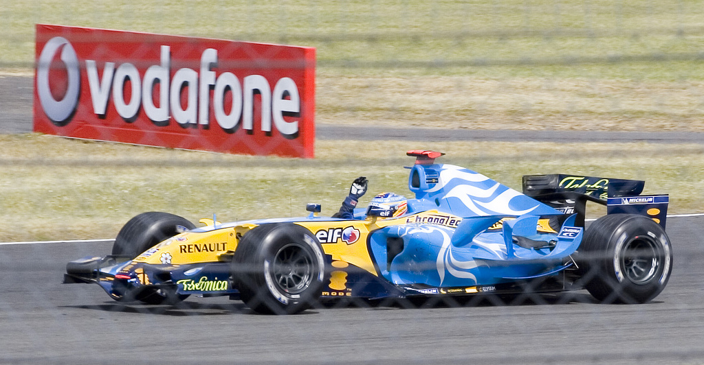 Fernando Alonso driving for Renault F1 at the 2006 British Grand Prix.